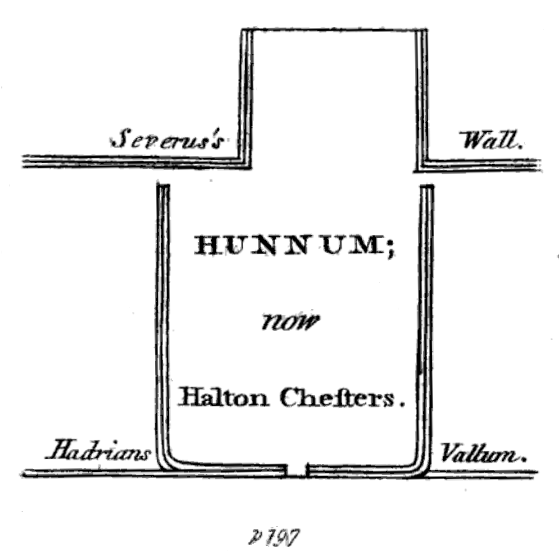 "HUNNUM; now Halton Chesters". Engraving from page 197 of The History of the Roman Wall by William Hutton. Printed by John Nichols and Son, London, 1802.